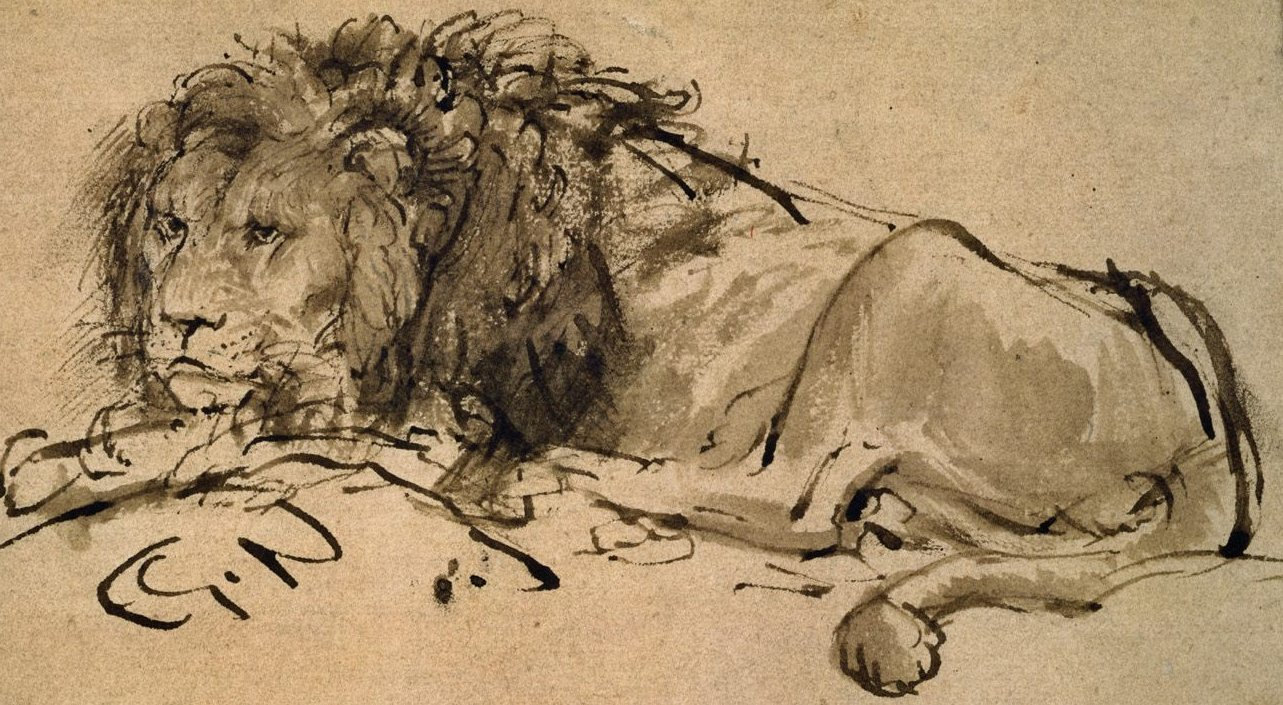 An extinct Cape Lion (Panthera leo melanochaitus) in a drawing of the Dutch artist Rembrandt Harmenszoon van Rijn ( Detail). 138 x 204 mm. Location: Louvre, Paris